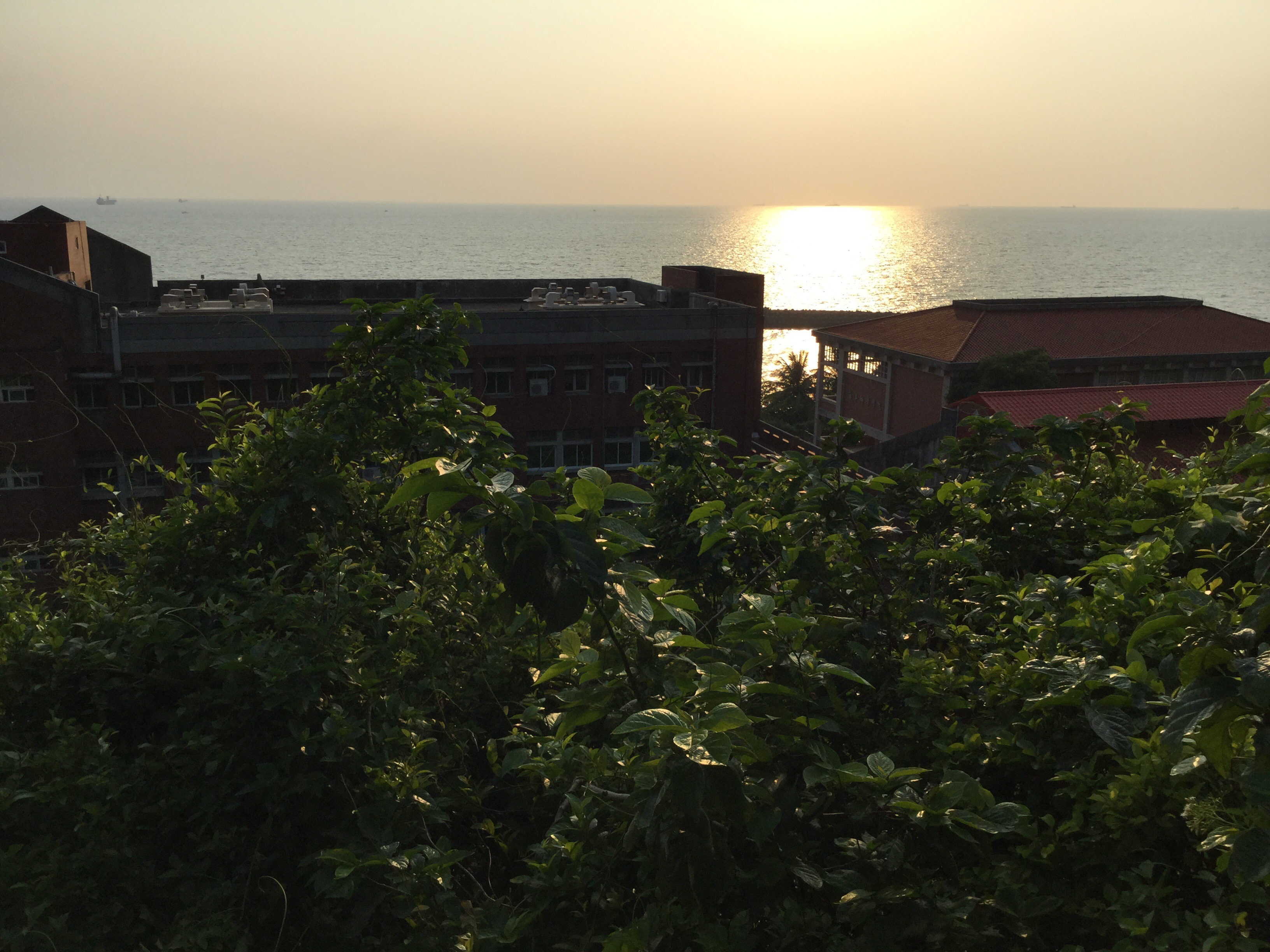 Sizihwan Sunset, Kaohsiung Taiwan